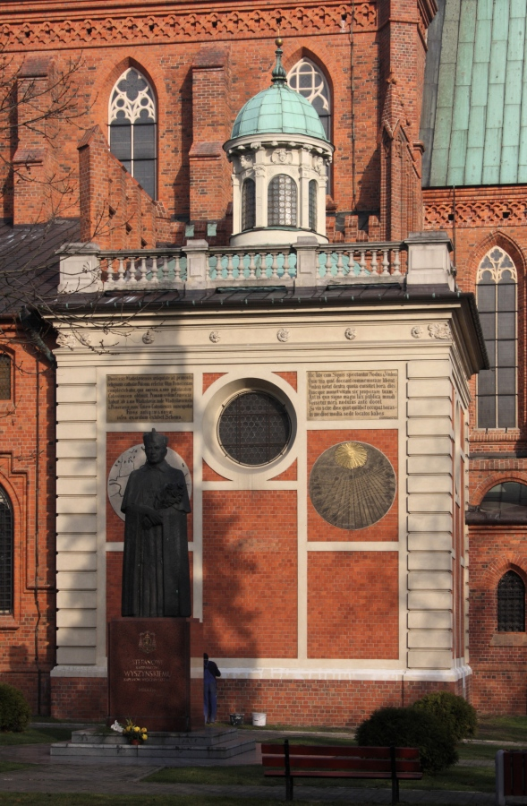 Włocławek Cathedral, chapel of St. Mary